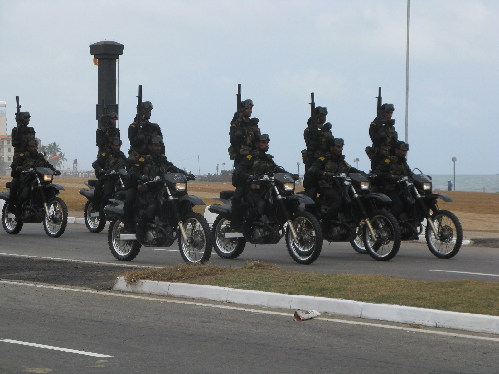 Combat Rider Teams, Special Forces Regiment - Sri Lanka Army